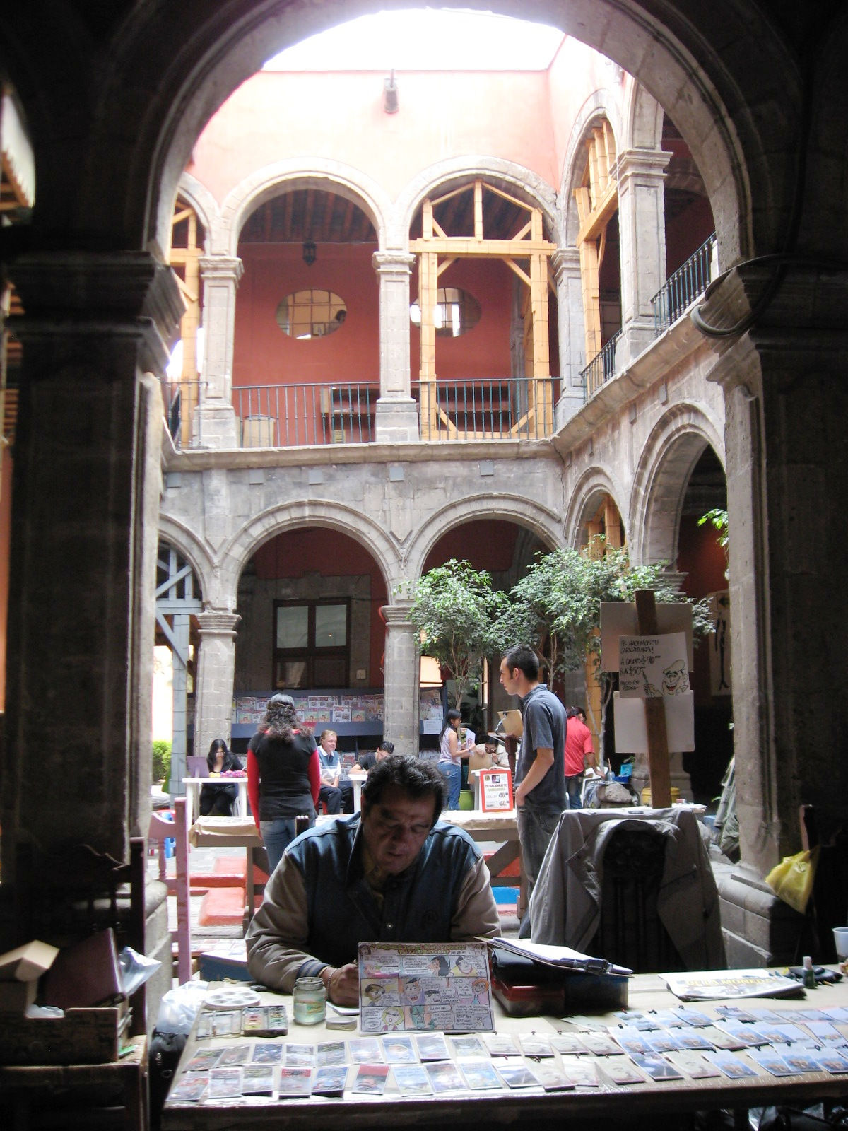 At entrance of the Caricature Museum in Mexico City with vendor selling cartoons and offering to sketch visitors.